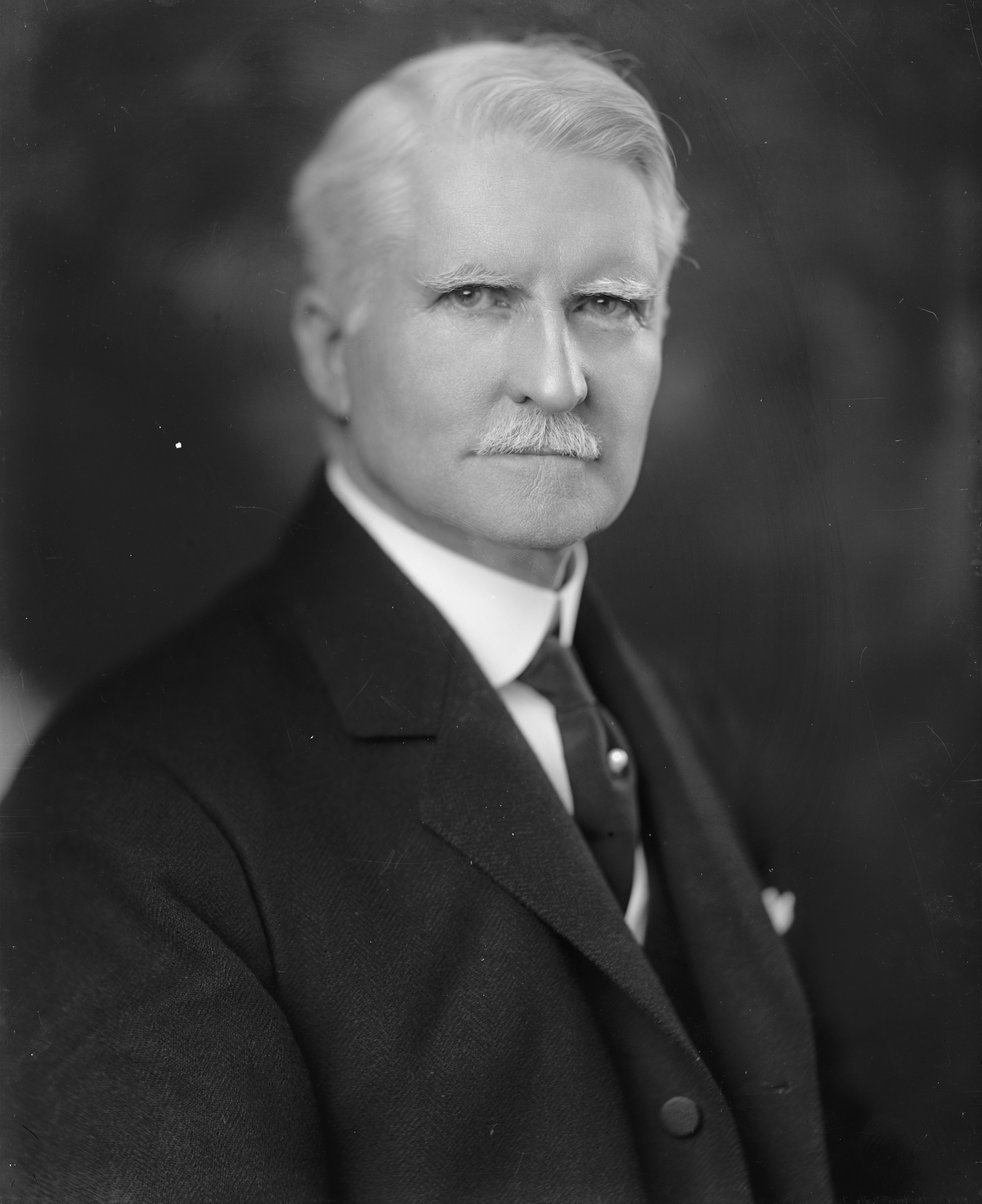 Title: TYSON, LAWRENCE D., SENATOR Abstract/medium: 1 negative : glass ; 8 x 10 in. or smaller